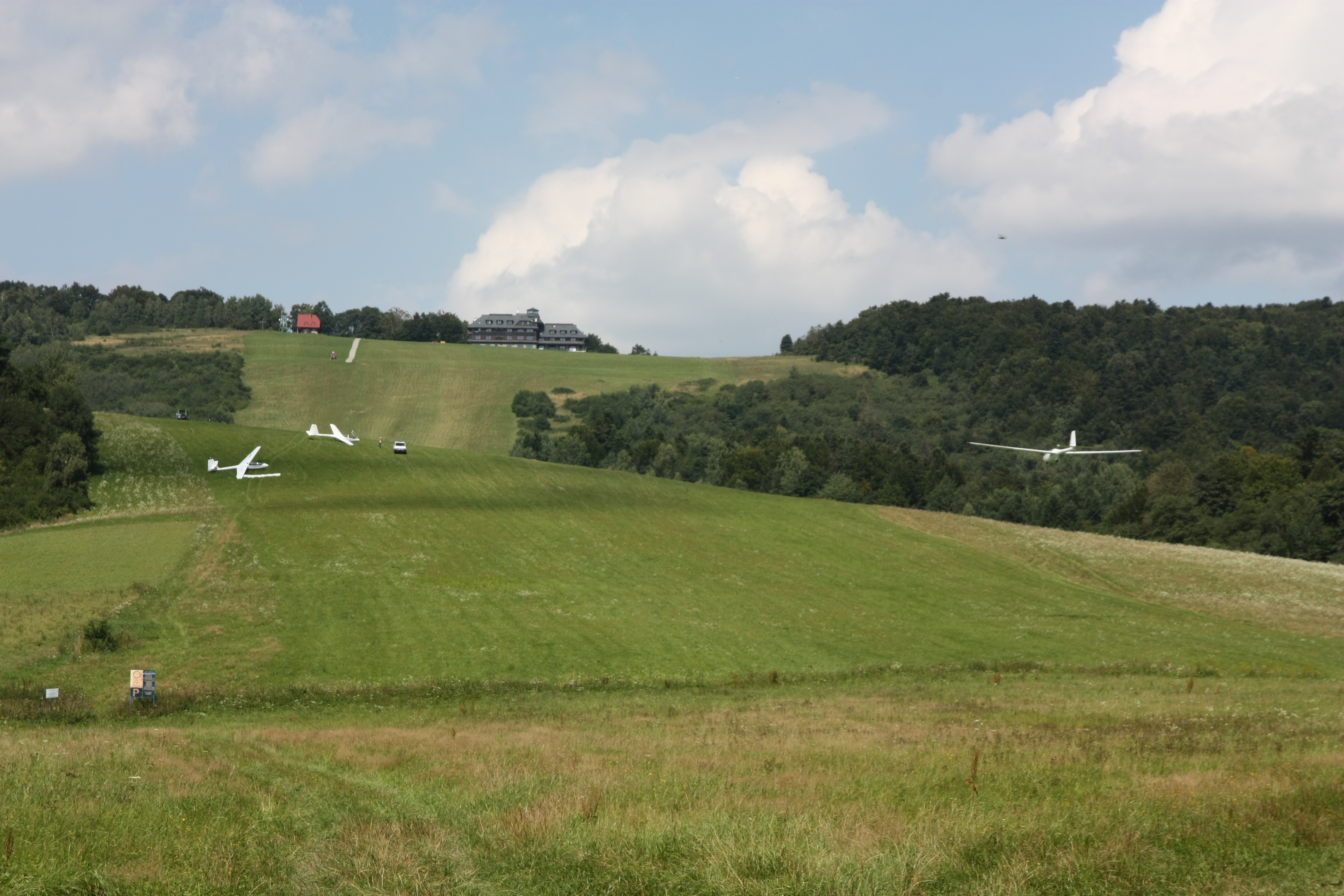 Airfield in Bezmiechowa Górna.